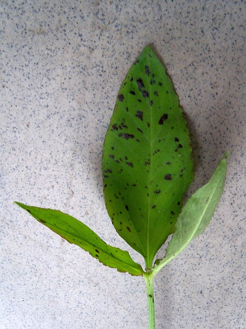 A leaf of Pinellia ternata with black spots